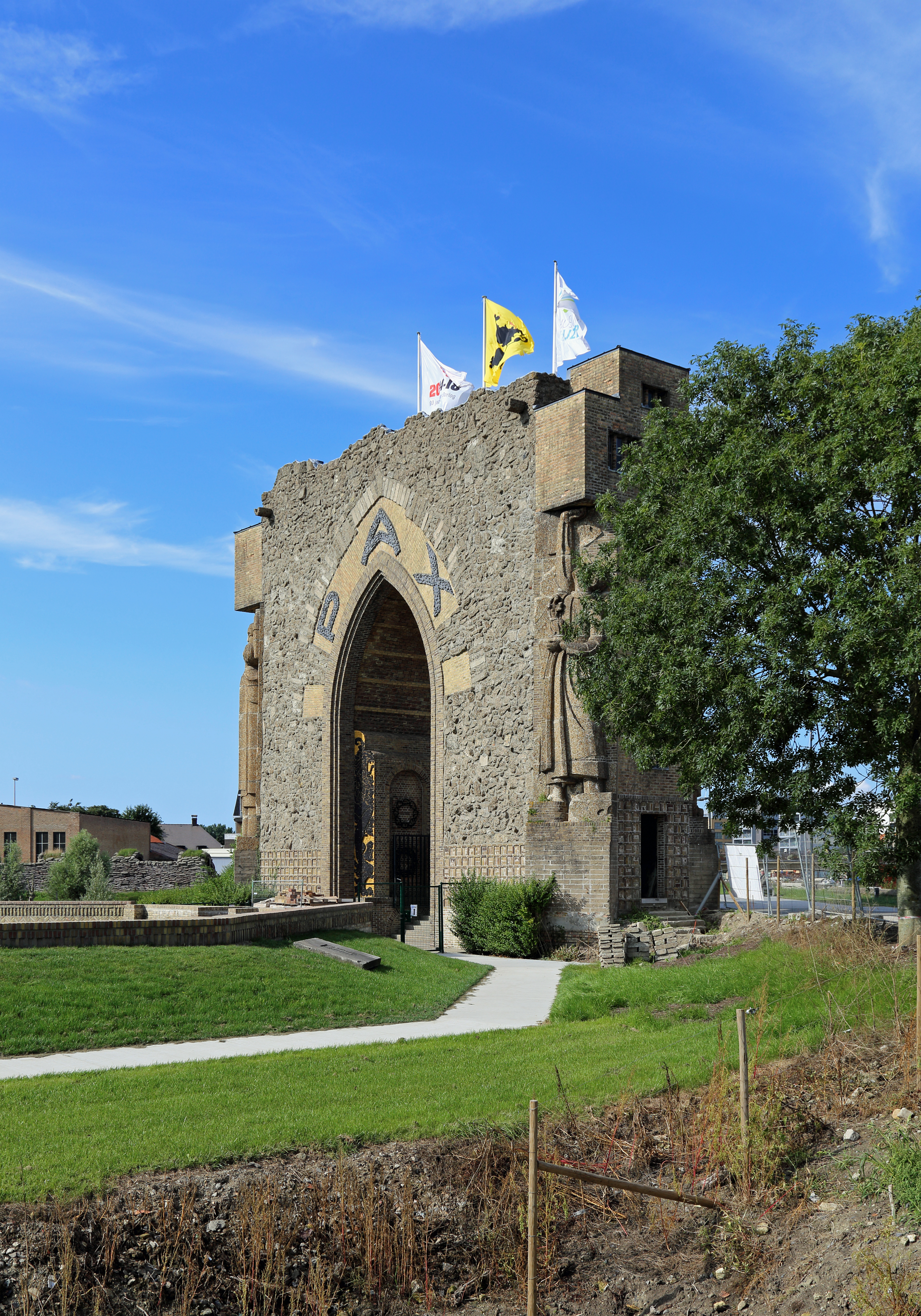 Diksmuide (Belgium): the Paxpoort (Gate of Peace)